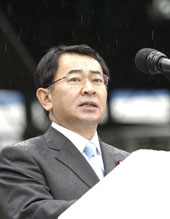 Minister Ryū Shionoya.